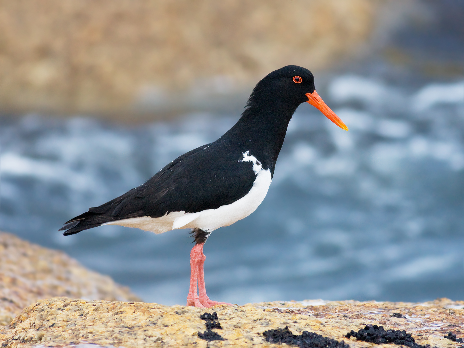 Pied Oystercatcher (Haematopus longirostris), Bicheno, Tasmania, Australia